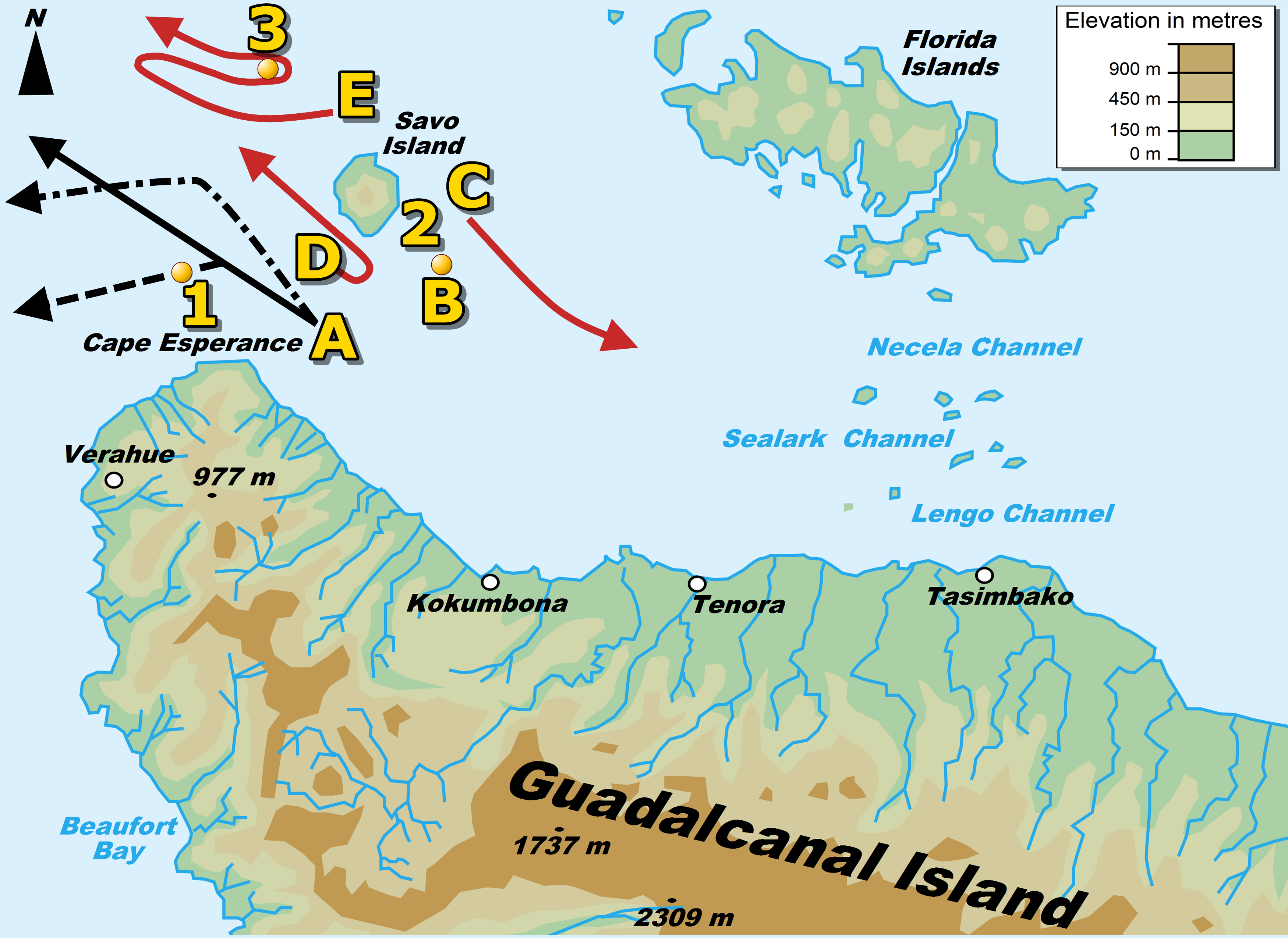 Chart of the second phase of the second night engagement of the Naval Battle of Guadalcanal, 23:30-02:00, November 14-15, 1942. Key: A- U.S. warship force: Washington (solid black line), South Dakota (large dotted line), and four destroyers (small dotted line is route of Gwin and Benham) B- Japanese destroyer Ayanami C- Japanese light cruiser Sendai and destroyers Uranami and Shikinami D- Japanese light cruiser Nagara and destroyers Shirayuki, Hastuyuki, Samidare, and Inazuma E- Japanese bombardment force: battleship Kirishima, heavy cruisers Atago and Takao, and destroyers Asagumo and Teruzuki 1- Location of sinking U.S. destroyers Preston and Walke 2- Location of sinking Japanese destroyer Ayanami 3- Location of sinking Japanese battleship Kirishima